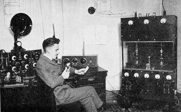 Dr. William D. Reynolds broadcasting over radio station KLZ in Denver, Colorado. Original caption: "The Salesroom Looking Toward the Street. Dr. Wm. D. Reynolds in KLZ"